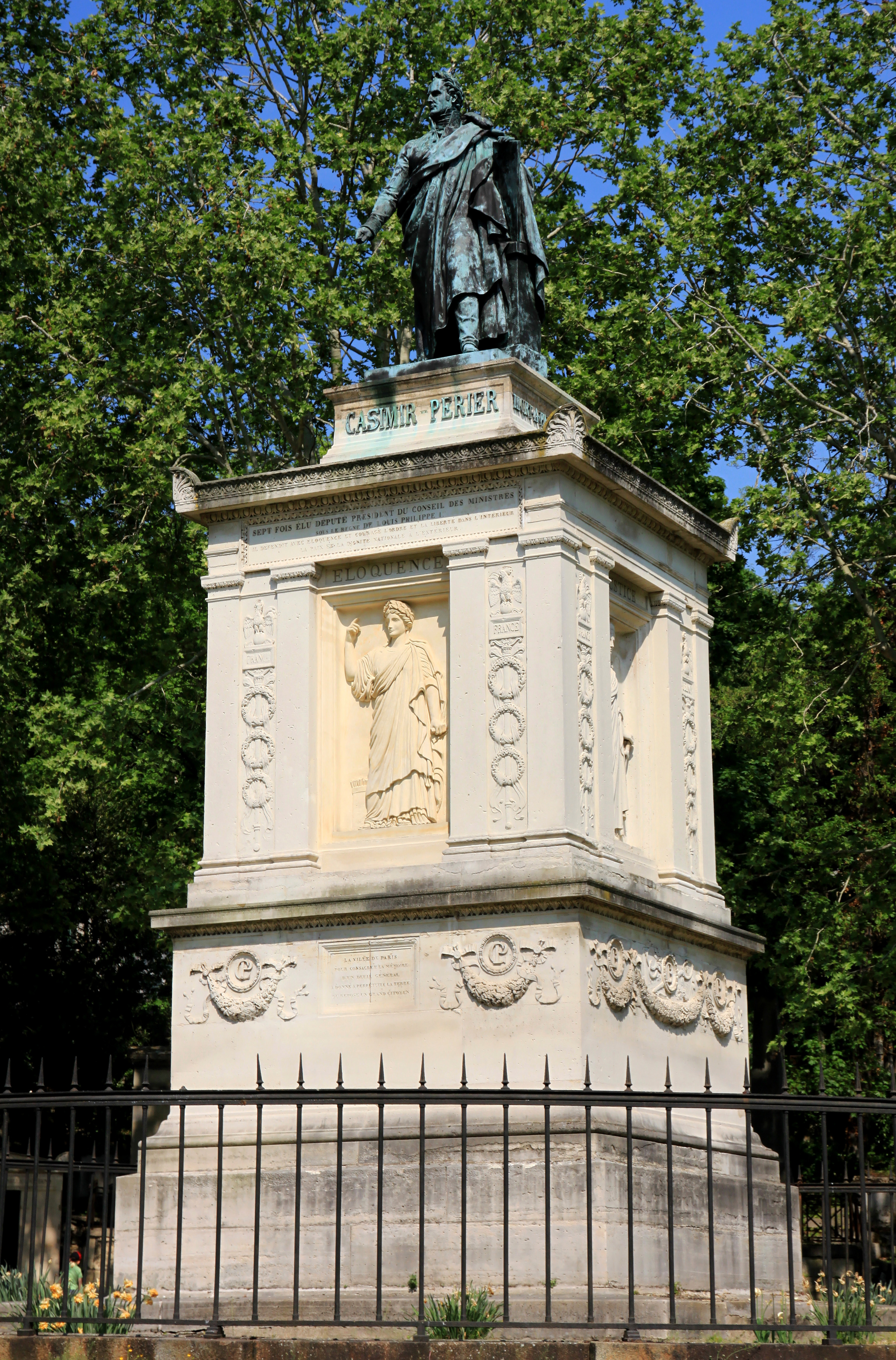 Tomb of Casimir Perier (1777-1832), Père Lachaise Cemetery (division 13), Paris. Sculpture and bas-reliefs by Jean-Pierre Cortot.